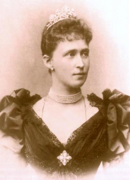 Princess Irene of Hesse and by Rhine